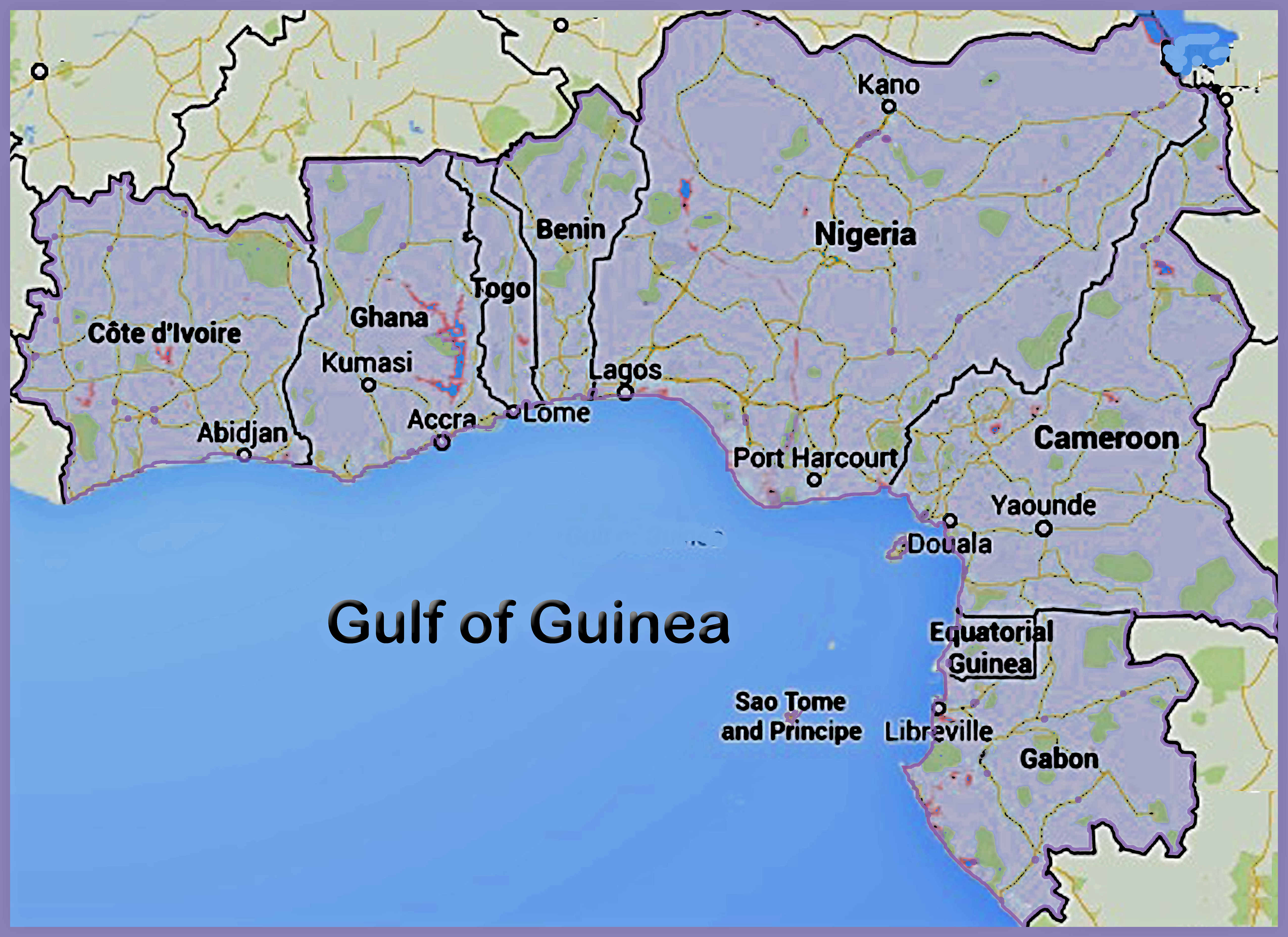 West African Nations with Coastlines on the Gulf of Guinea